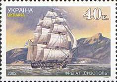 Stamps of Ukraine, 2002